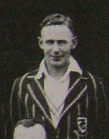 Arthur Morris in his St George uniform in Sydney in 1939